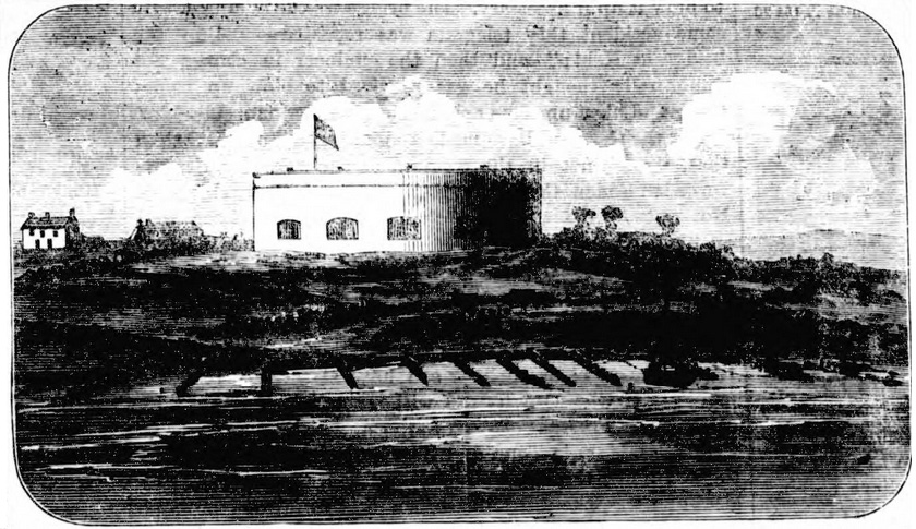 Engraving of Slough Fort, Kent, in 1870. Illustrated Times, 5 November 1870